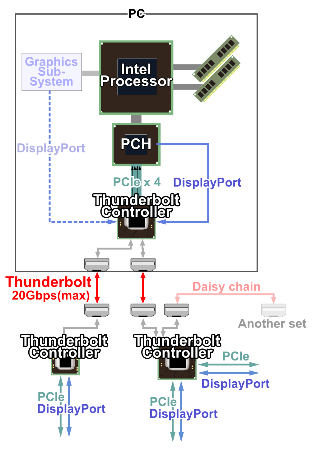 Thunderbolt Technology's block diagram model 1